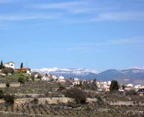 Taken on 08 March 2004.